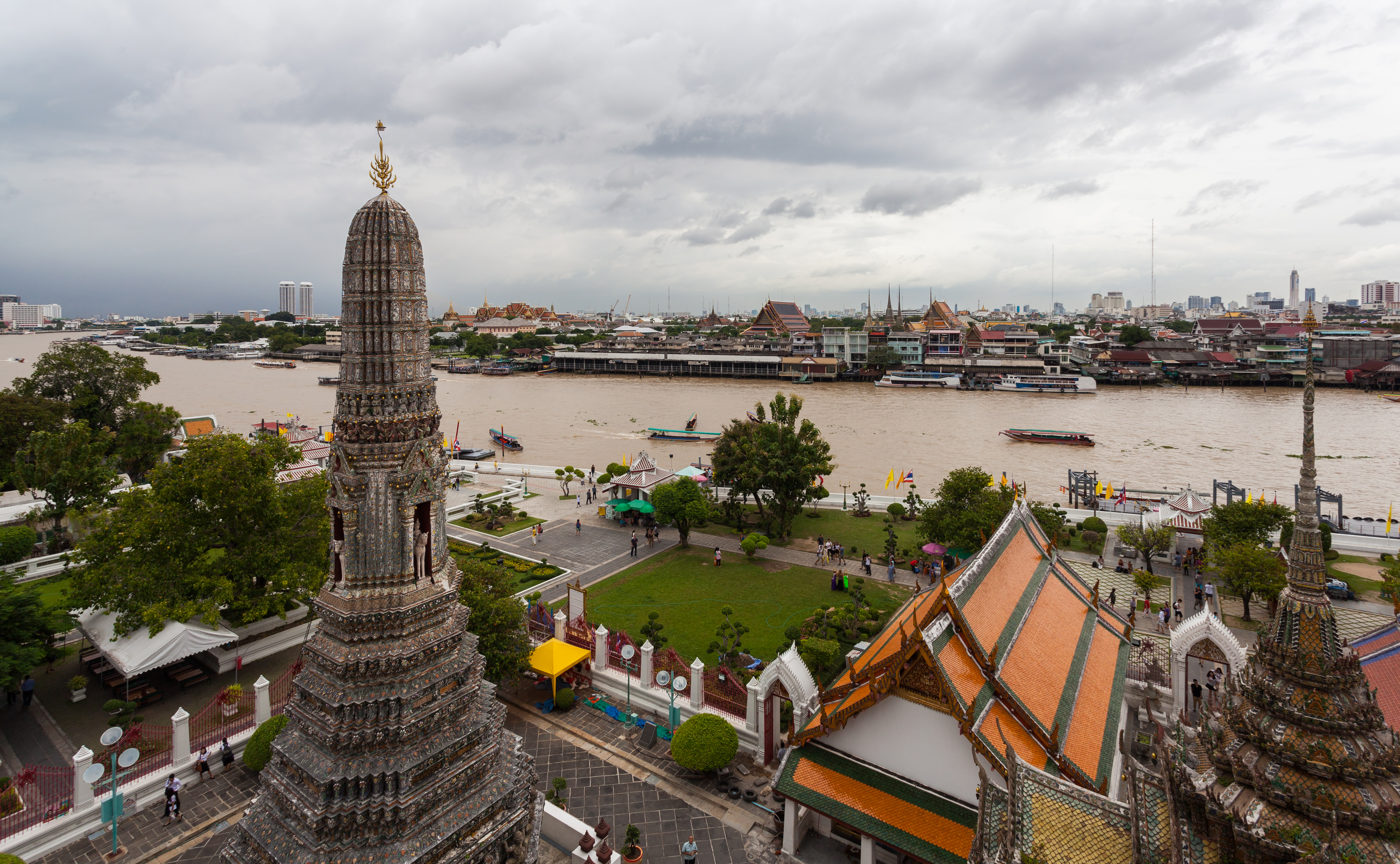 Wat Arun Temple, Bangkok, Thailand